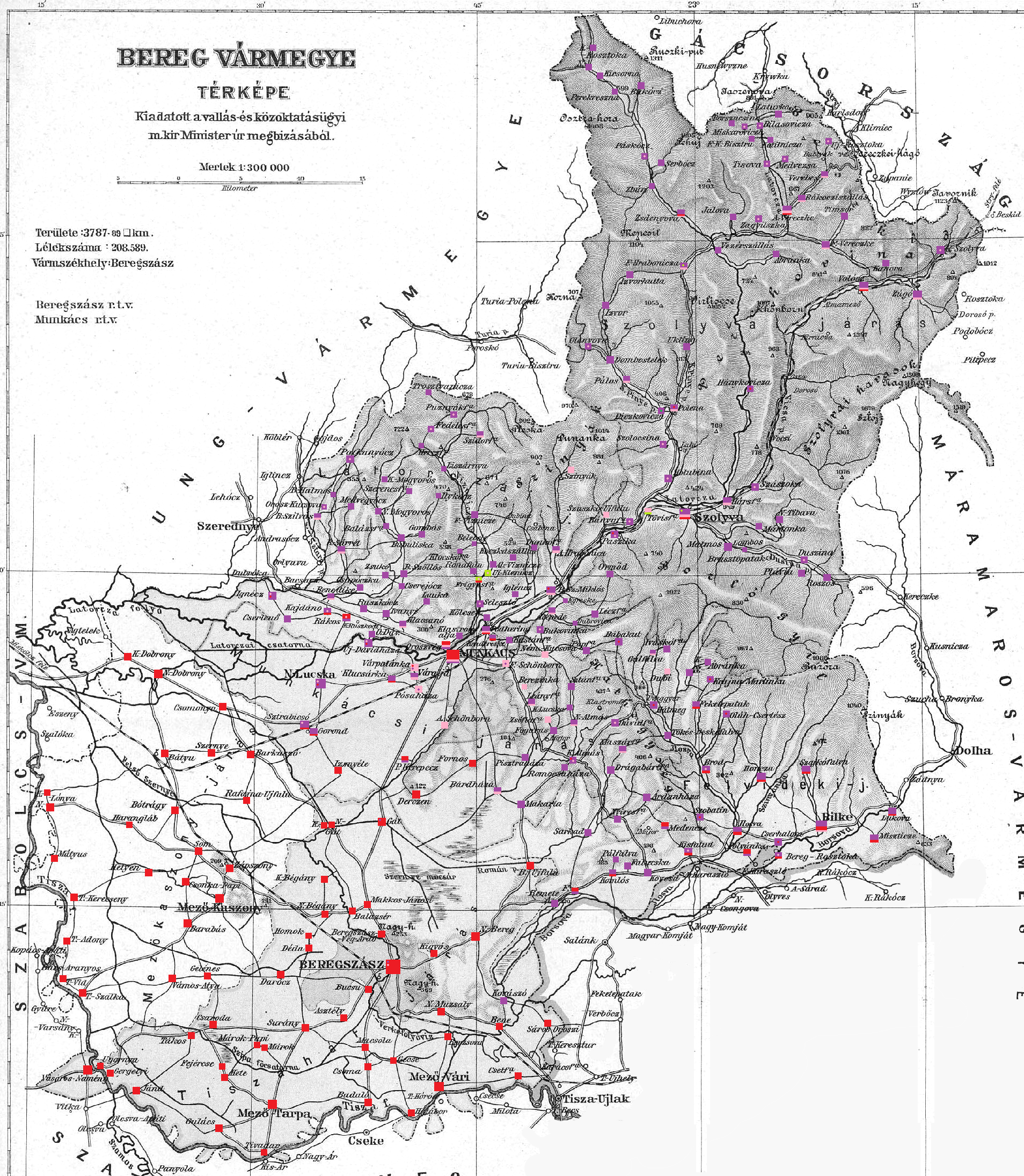 Ethnic map of the county (with data of the 1910 census). Key: red - Hungarians; violet - Ruthenians; pink - Germans; light green - Slovaks; dark green - Romanians. Coloured dots in plain rectangles imply the presence of smaller minority populations (generally more than 100 people or 10%). Multicoloured rectangles imply cities and villages with multi-ethnic populations with the order of the stripes following the ethnic composition of the settlement.